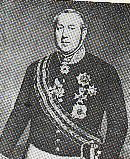 Image (Portrait) of Charles-Mathias Simons (1802 - 1874), Prime Minister of Luxembourg from 1853 till 1860